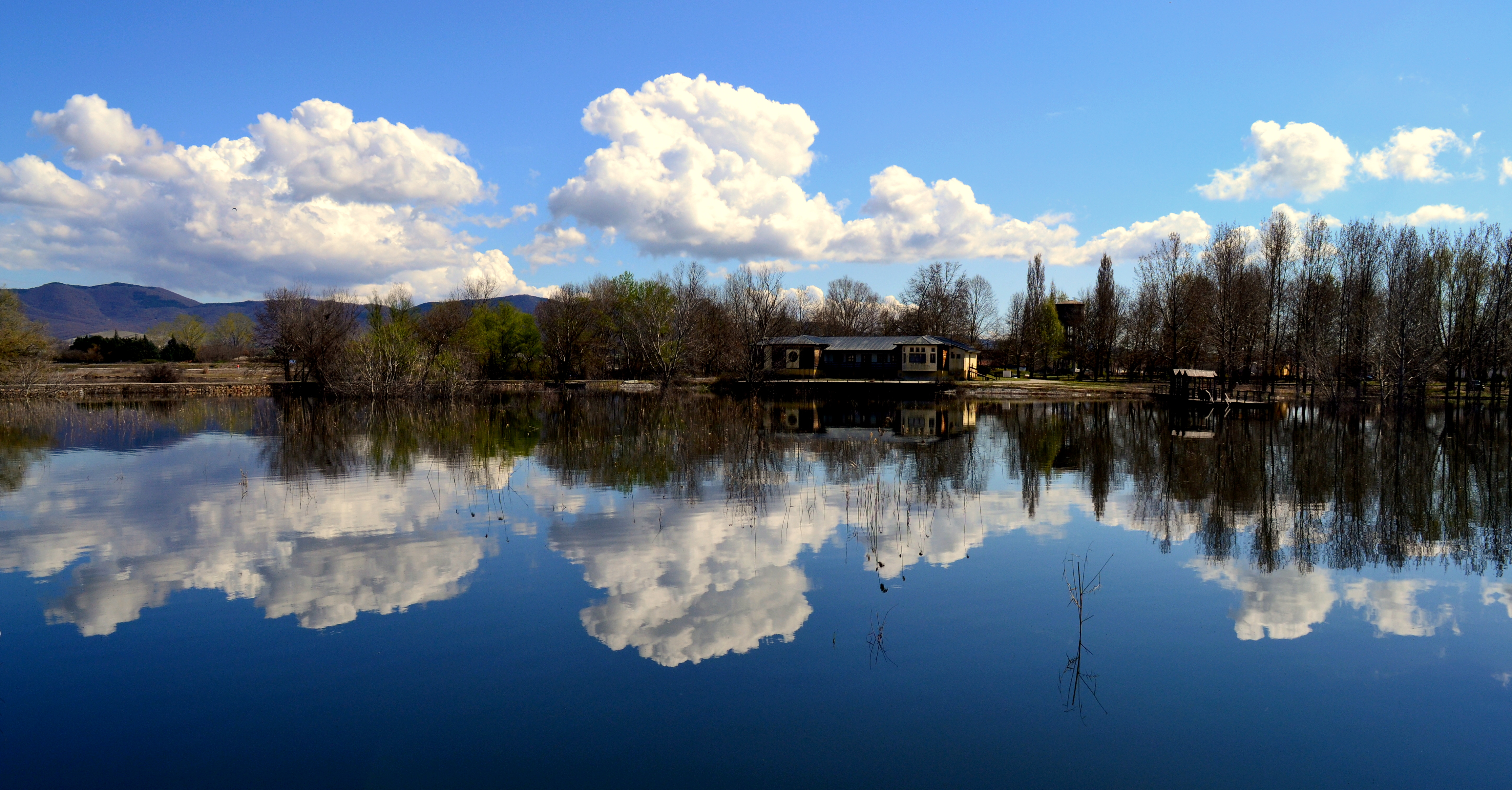 This is a photography of Natura 2000 protected area with ID Δοϊράνη Κιλκίς Λίμνη Δοϊράνη Κιλκίς